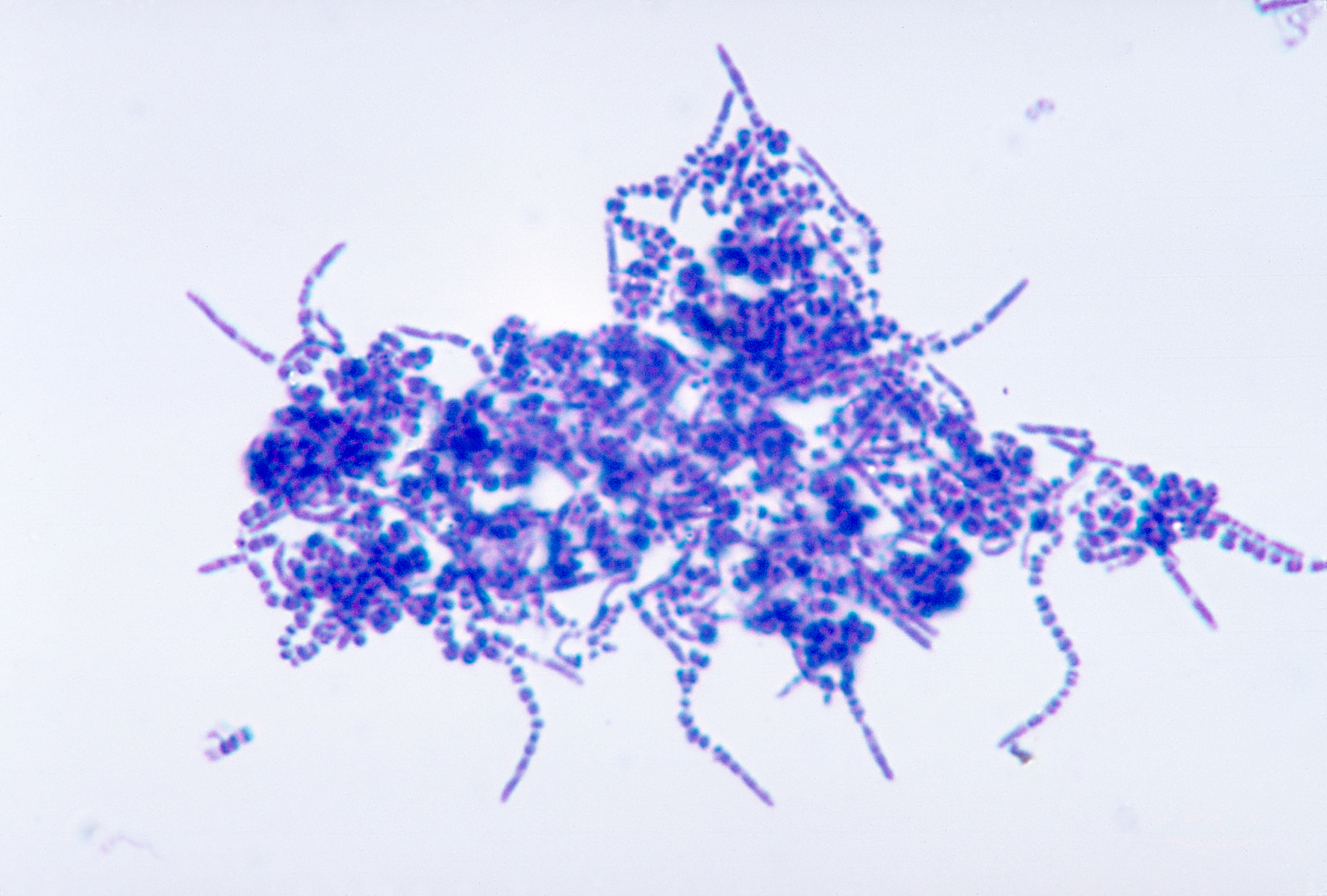 Public Health Image Library, No 2986 [1]